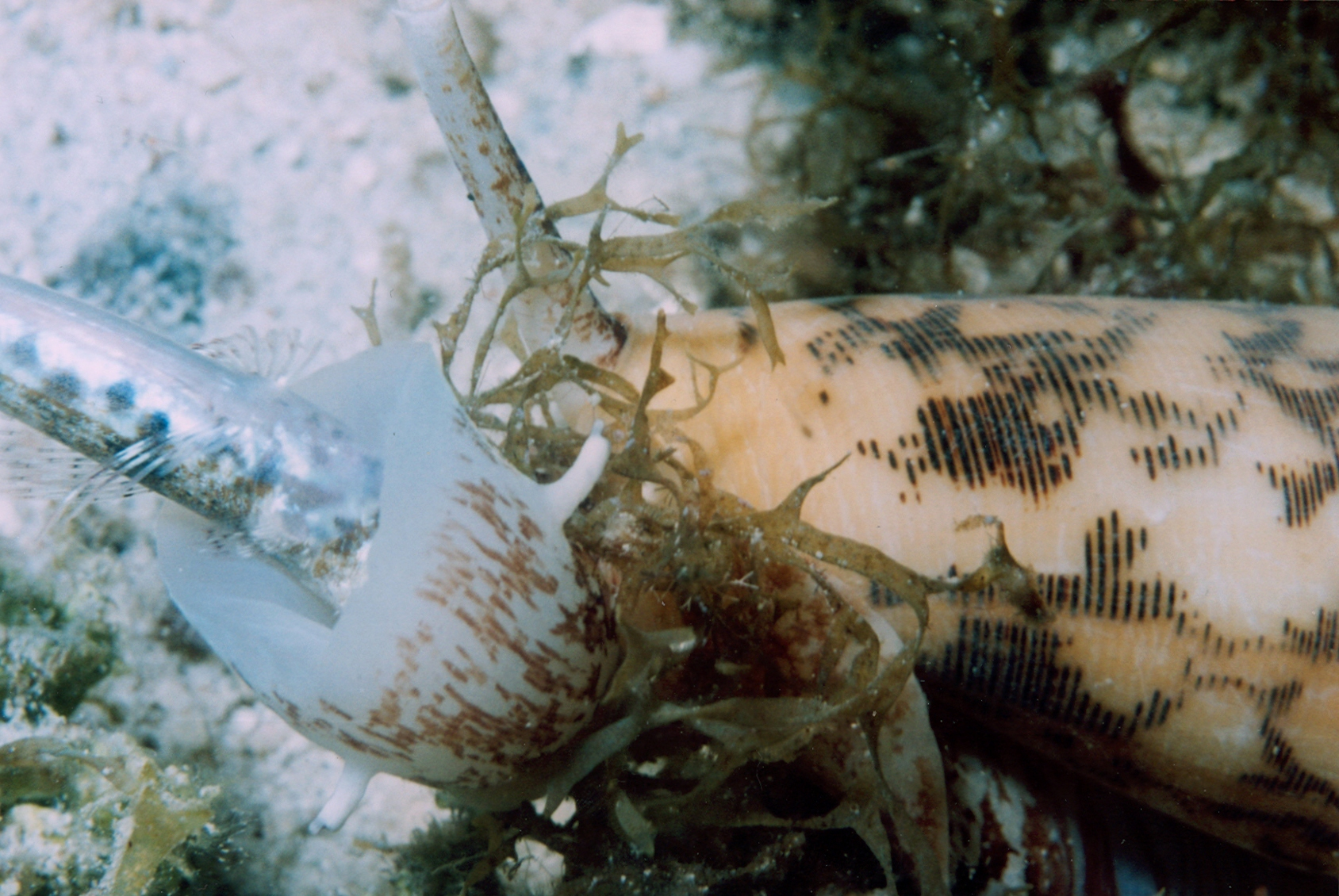 Cone shell ingesting a small fish. Cone shells incapacitate their prey by injecting a neurotoxin which can be dangerous to humans Image ID: reef1152, NOAA's Coral Kingdom Collection Location: Guam, Mariana Islands